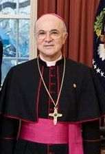 Archbishop Carlo Maria Viganò in 2013